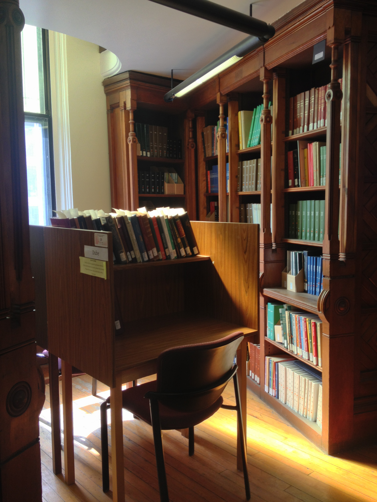 A study corner in the Octagon Room in Islamic Studies Library. Located in Morrice Hall at McGill University.